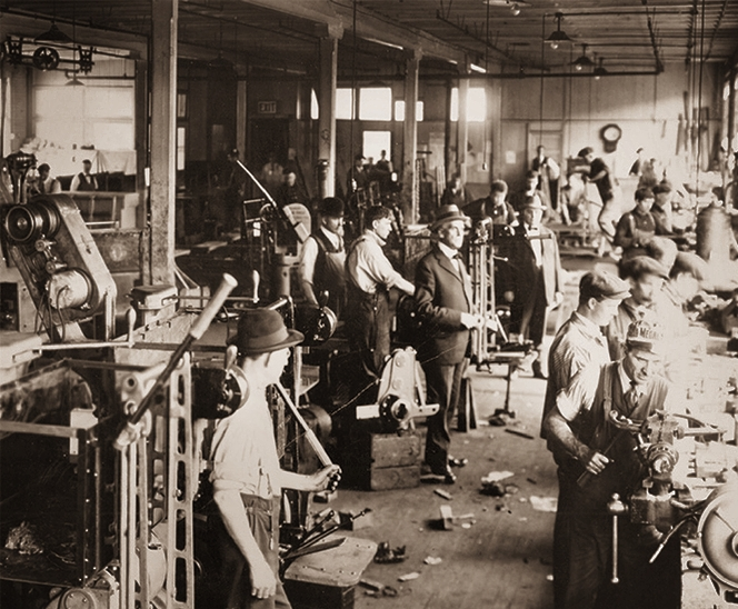 Joseph O. Eaton (in suit and fedora) visits a plant, 1920